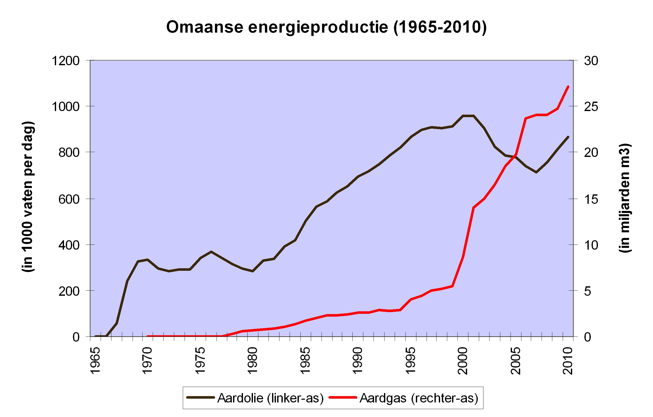 Omani oil- and gasproduction between 1965-201. Source BP Statistical review of world energy 2011